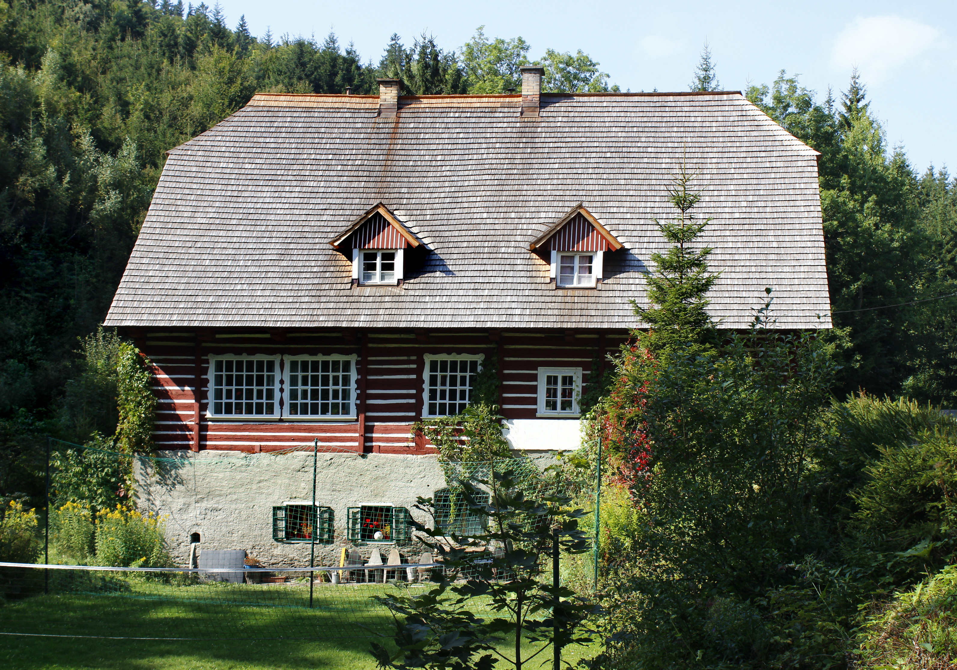 Jedlová, part of Deštné v Orlických horách, Czech Republic